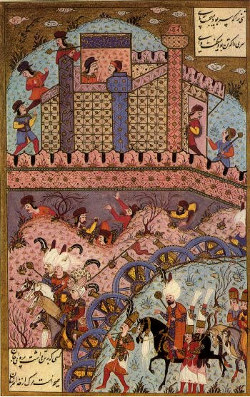 Illustrations of Ottoman soldiers from the Süleymanname